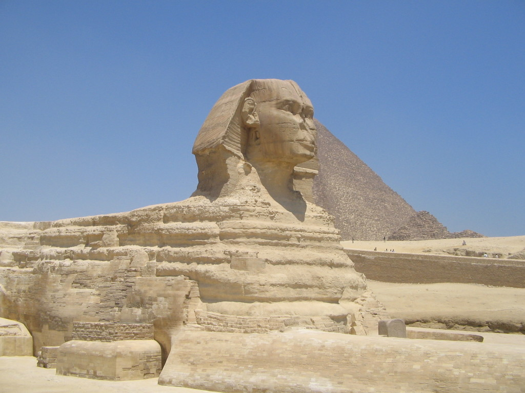 Photograph created by Sarah Kirby using a Canon PowerShot A400 digital camera